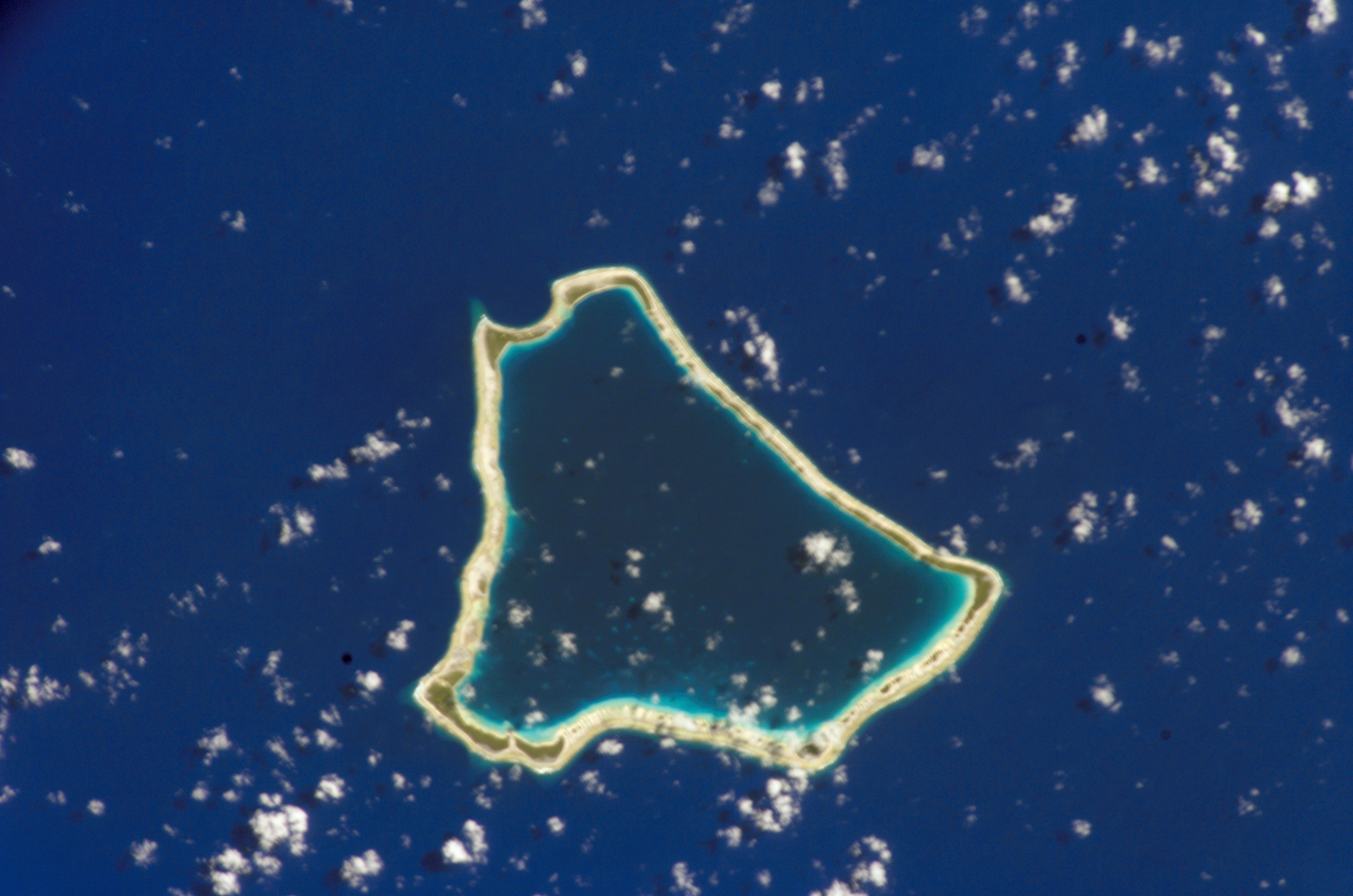 NASA astronaut image of Tematangi Atoll (Tuamotu Archipelago, French Polynesia) in the Pacific Ocean